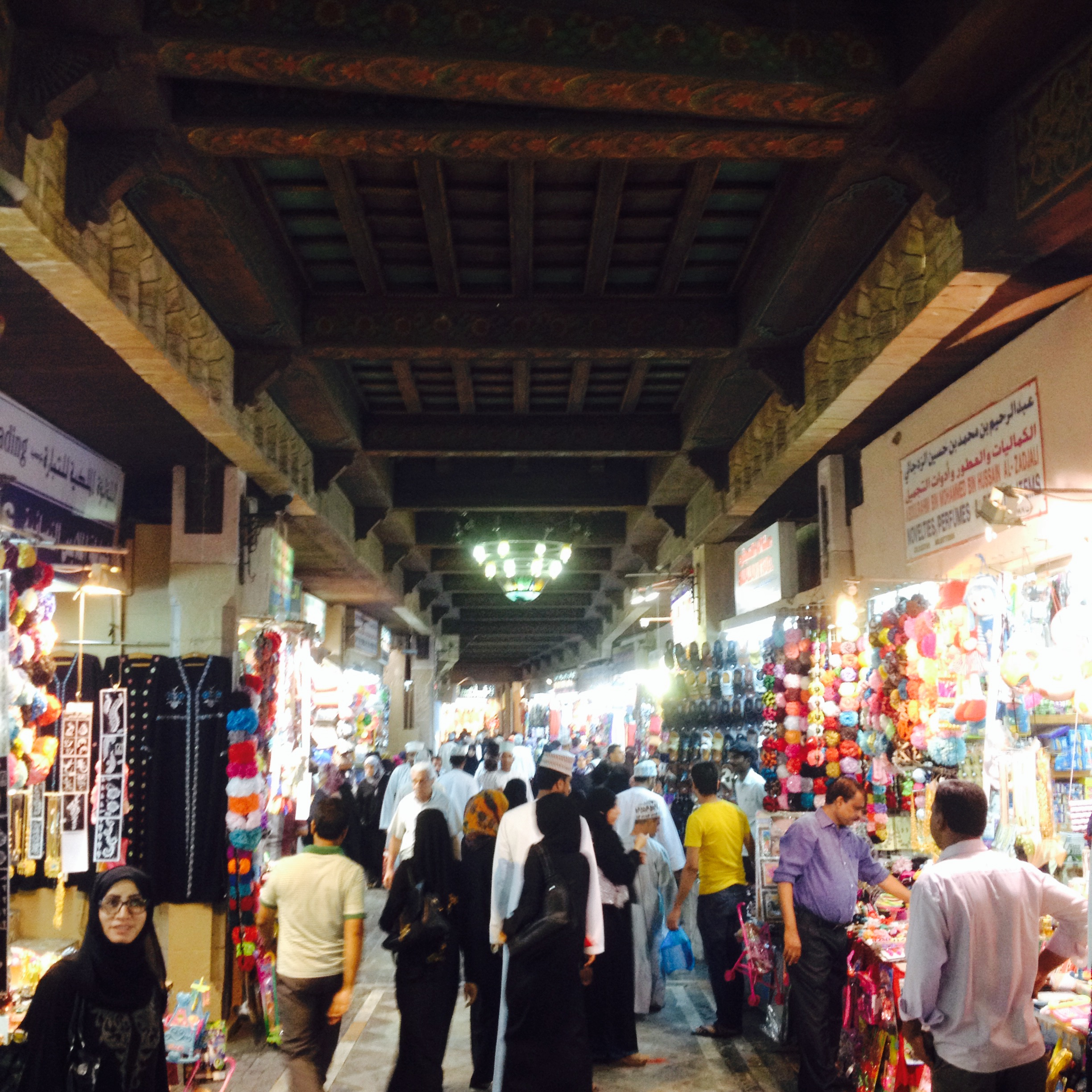 منظر من داخل سوق مطرح